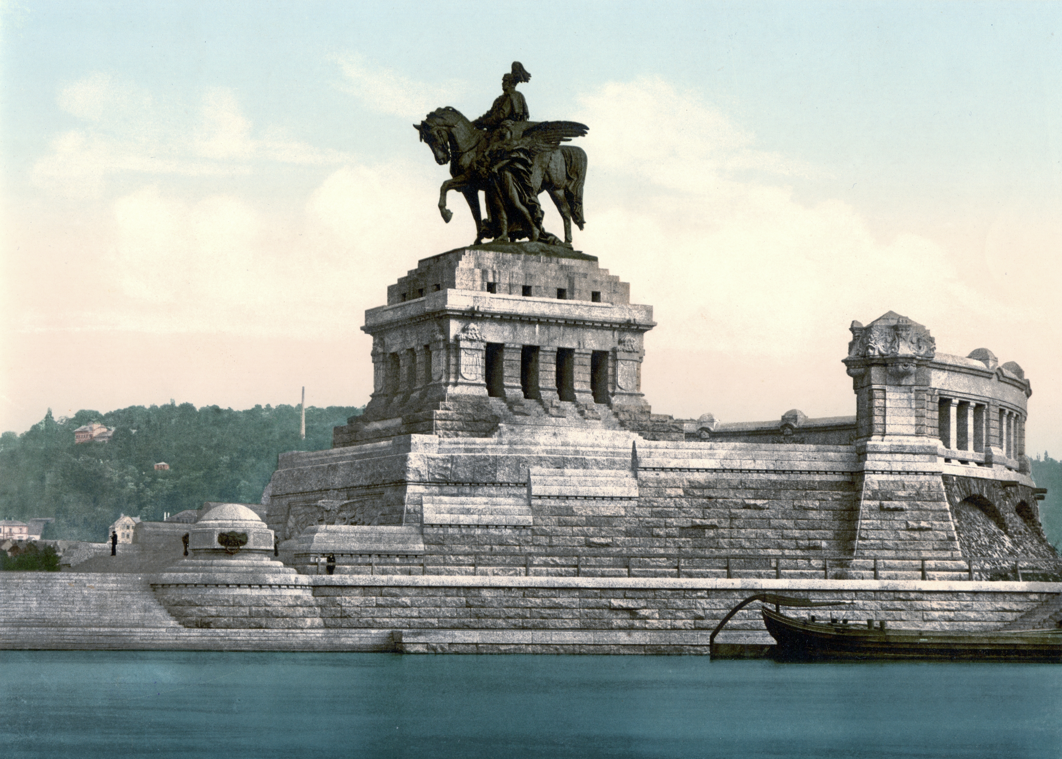 Emperor William's Monument, Koblenz, the Rhine, Germany